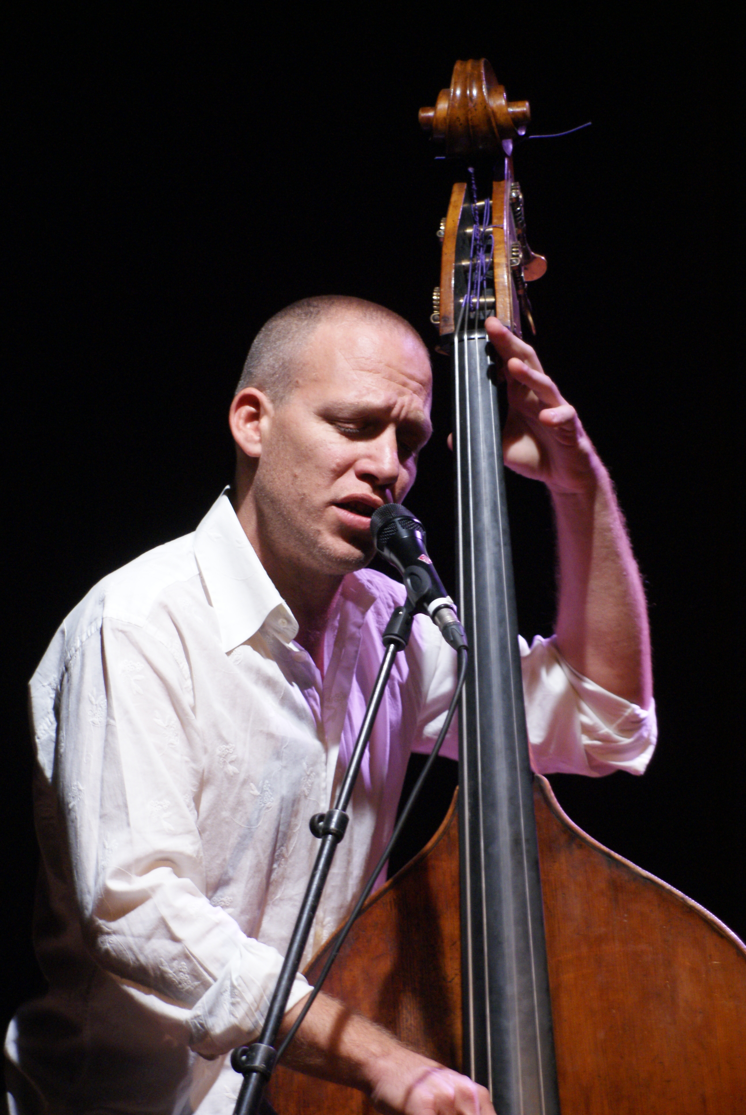 Avishai Cohen, Cedac Cimiez, Nice (France)